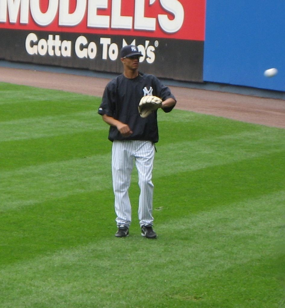 Yankees pitcher Edwar Ramírez warming up before a game at the Old Yankee Stadium, September 2007.